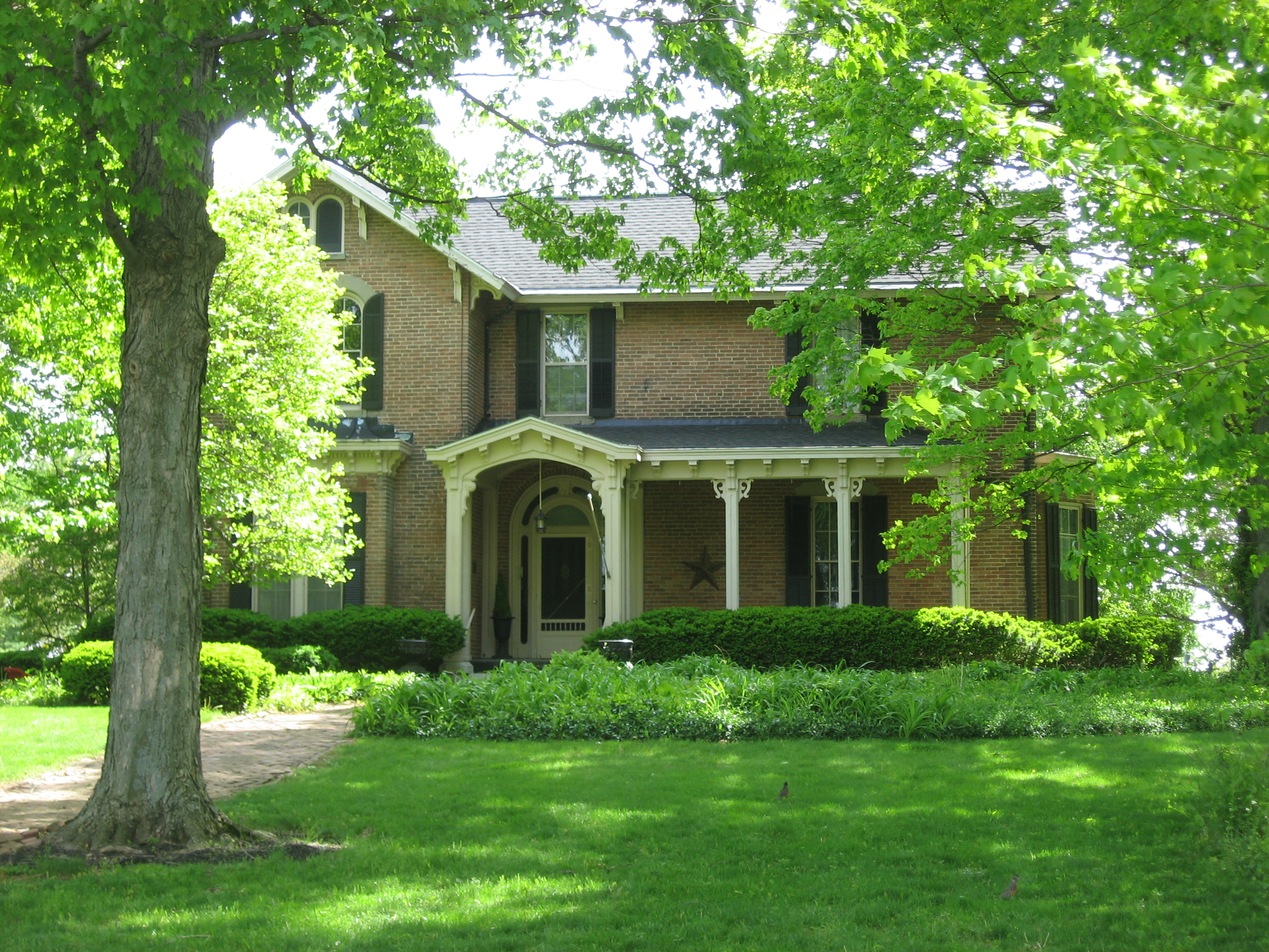 Front of the farmhouse at Elmwood Place, located along State Route 161 southeast of Irwin in Union Township, Union County, Ohio, United States. Built in 1868, it and several other farm buildings are listed together on the National Register of Historic Places.